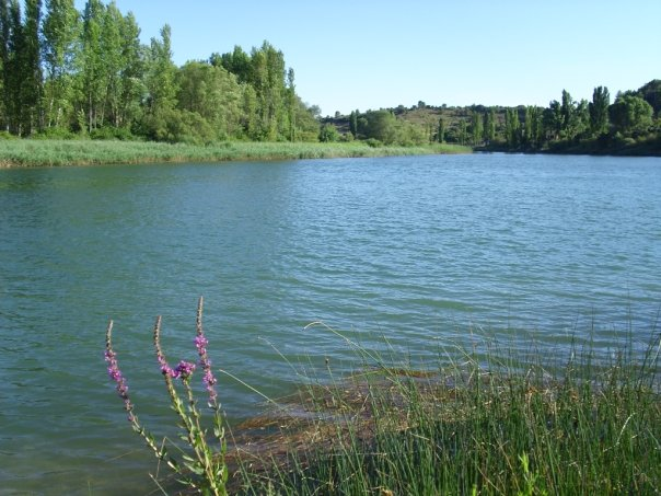 One of the shores in the Tajo river, near Sacedón